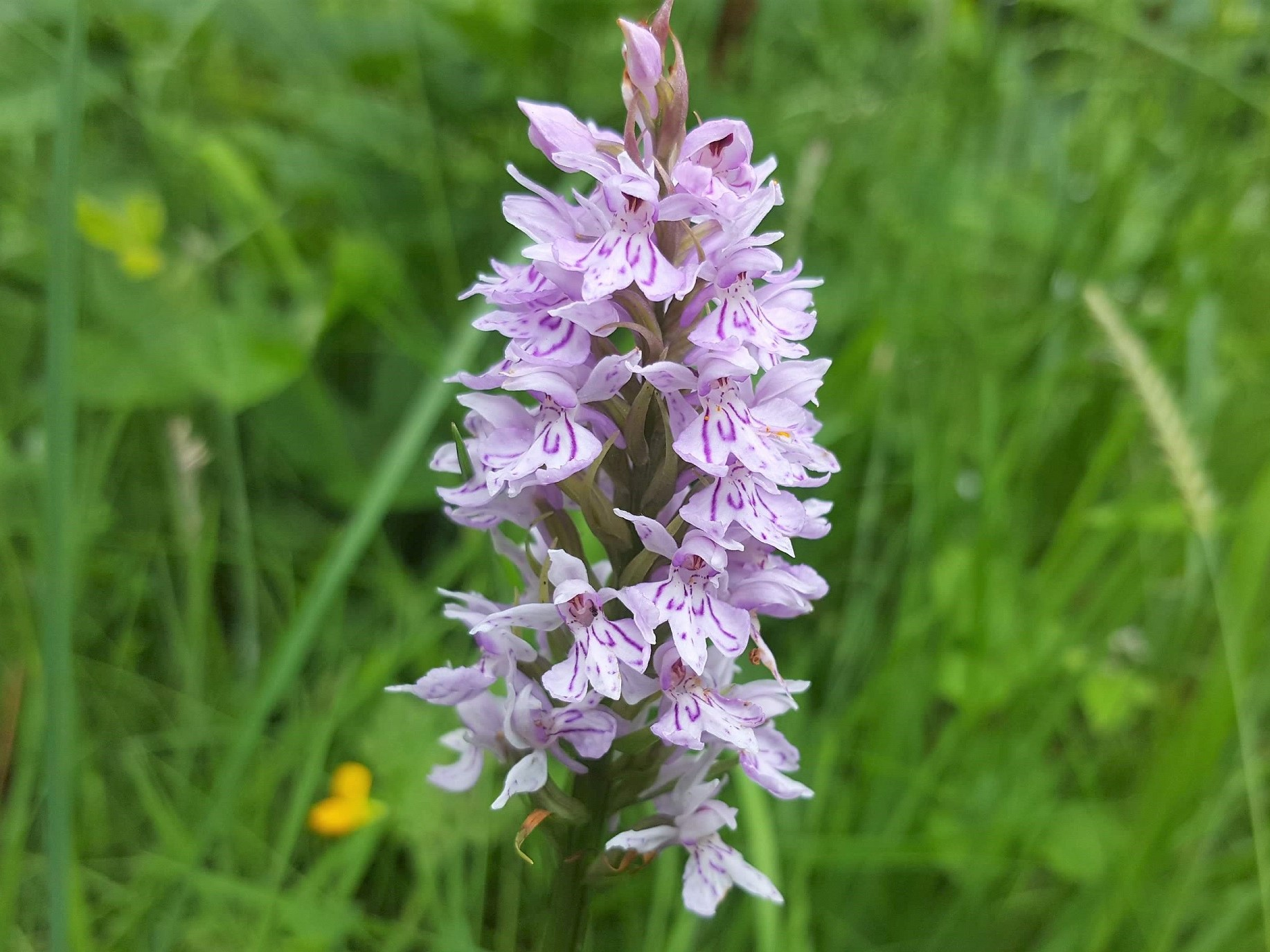 Common Spotted Orchid on Tissington Trail